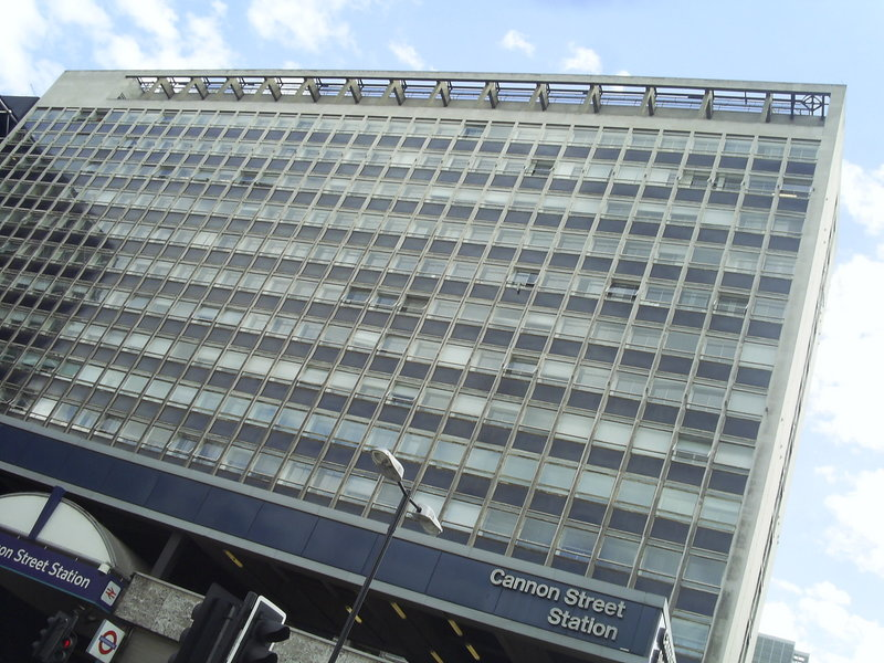 Poulson's Offices over Cannon Street Station